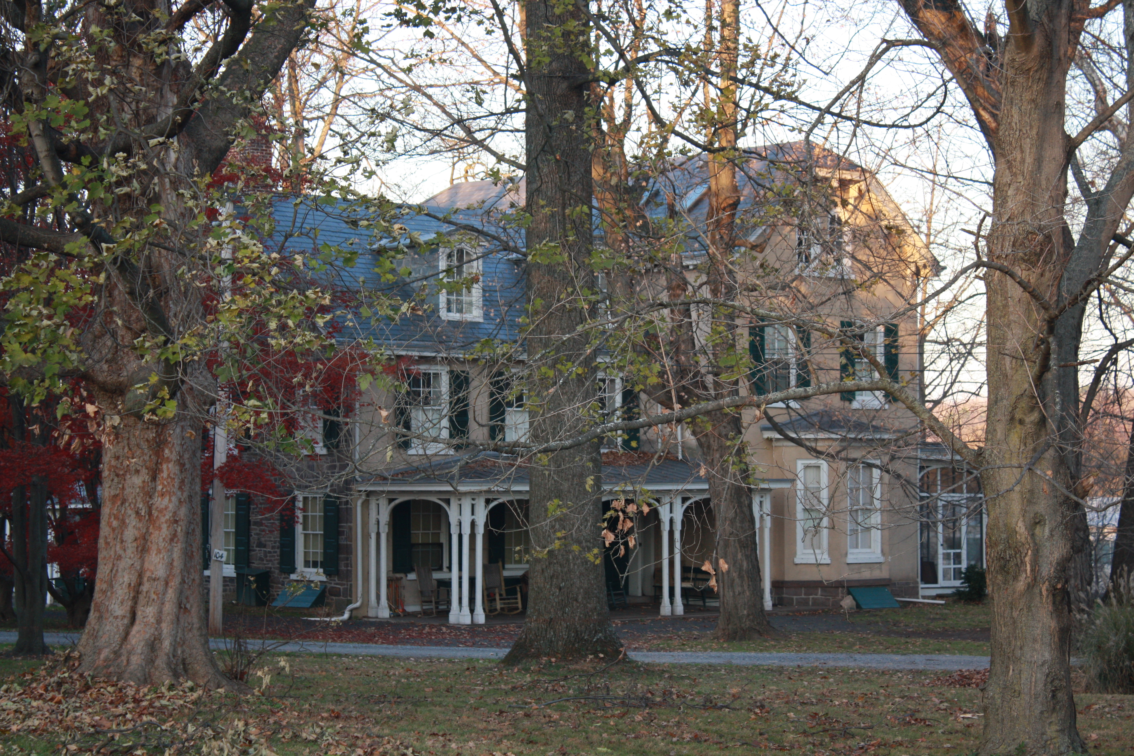 Rhoads Homestead is a historic homestead located at New Hope, Bucks County, Pennsylvania. Object location40° 22′ 13″ N, 74° 57′ 28″ W